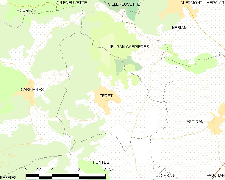 Map commune FR insee code 34197.png - Péret